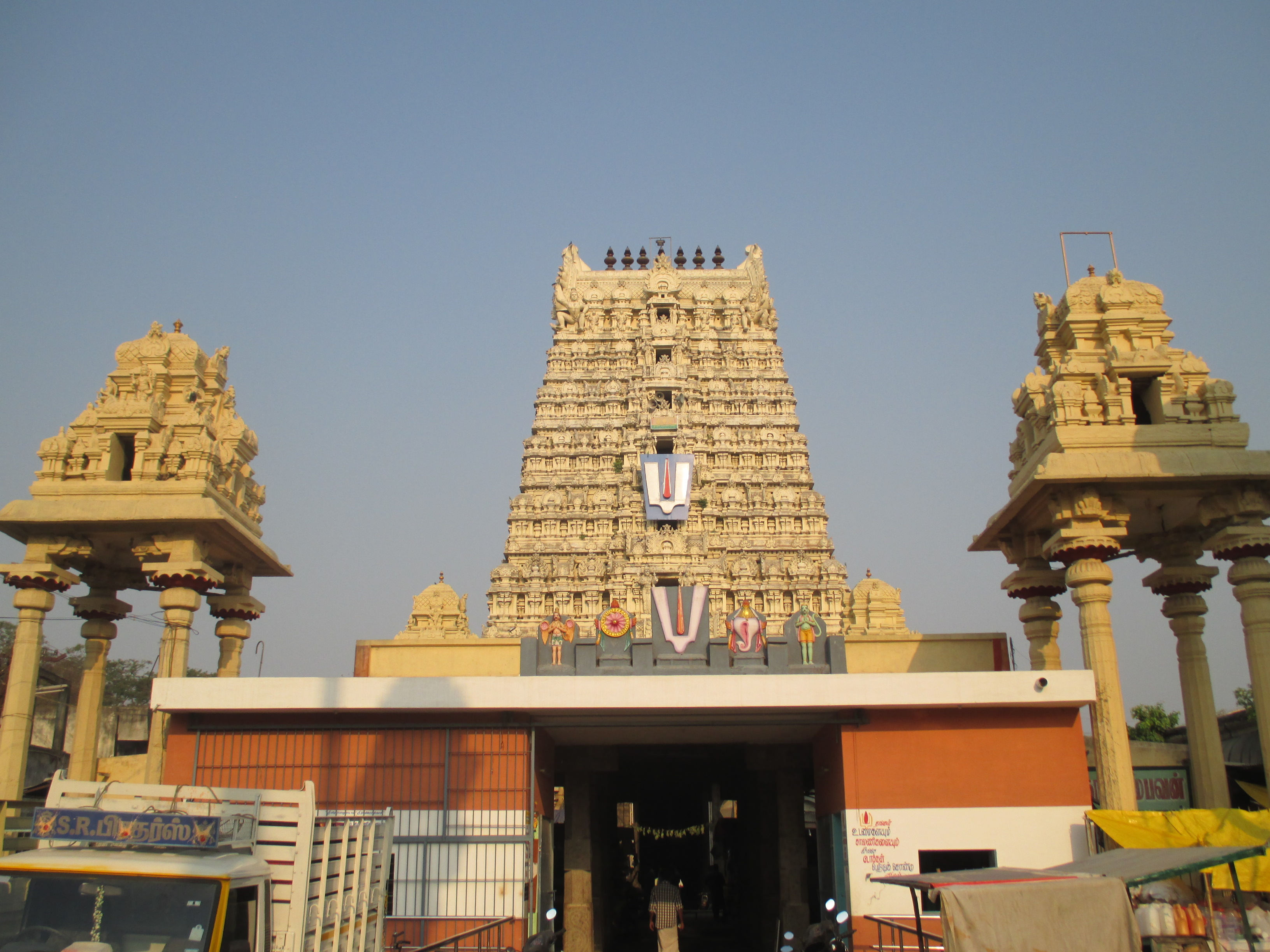 Ulagalantha Perumal Temple, Tirukoyilur